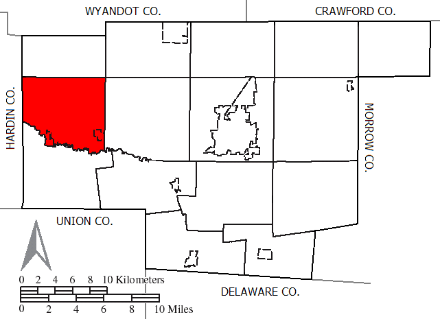 Made by the US Census and modified by myself to highlight the township